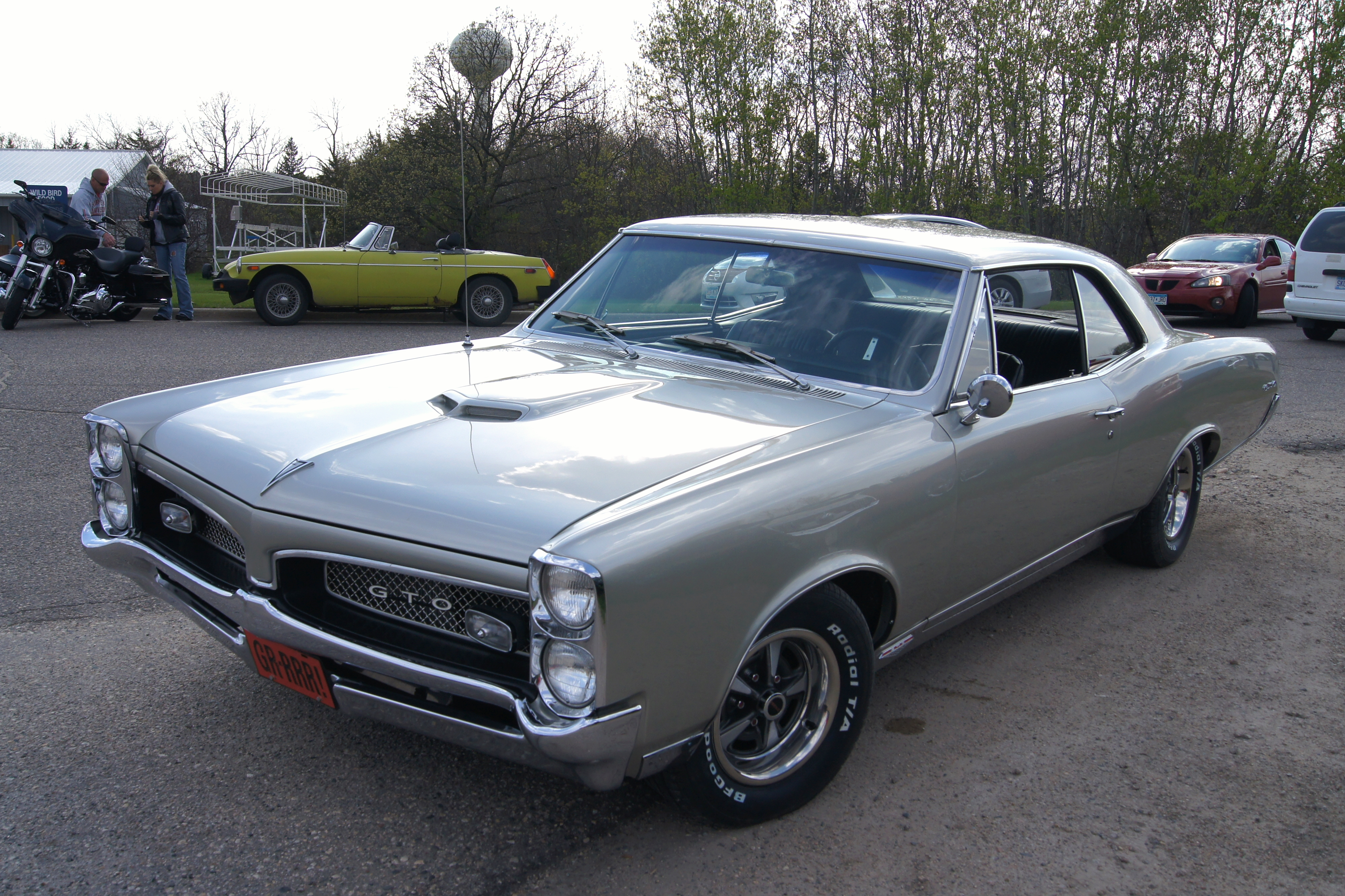 Willmar Car Club & A&W Country Stop Cruise Night May 17, 2014 Great weather and a great band, provided by the A&W Country Stop in New London, led to high levels of enjoyment for the large crowd that attended. For more pictures click on the link below